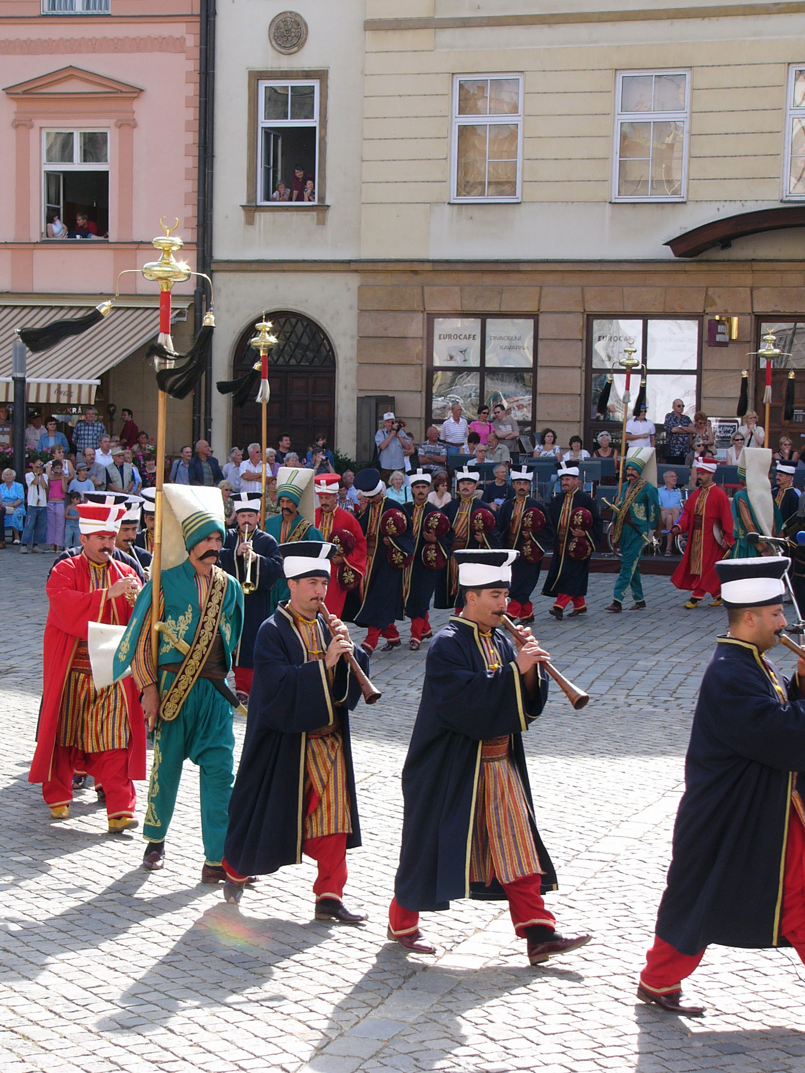 Janissary marching band.